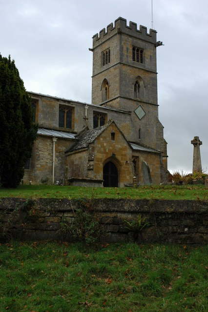 North porch and west tower of St Michael's parish church, Buckland, Gloucestershire, seen from the northeast